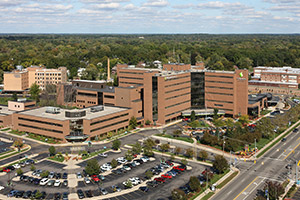 Aerial view, looking northeast, of Allegiance Health in Jackson, Michigan, United States of America.